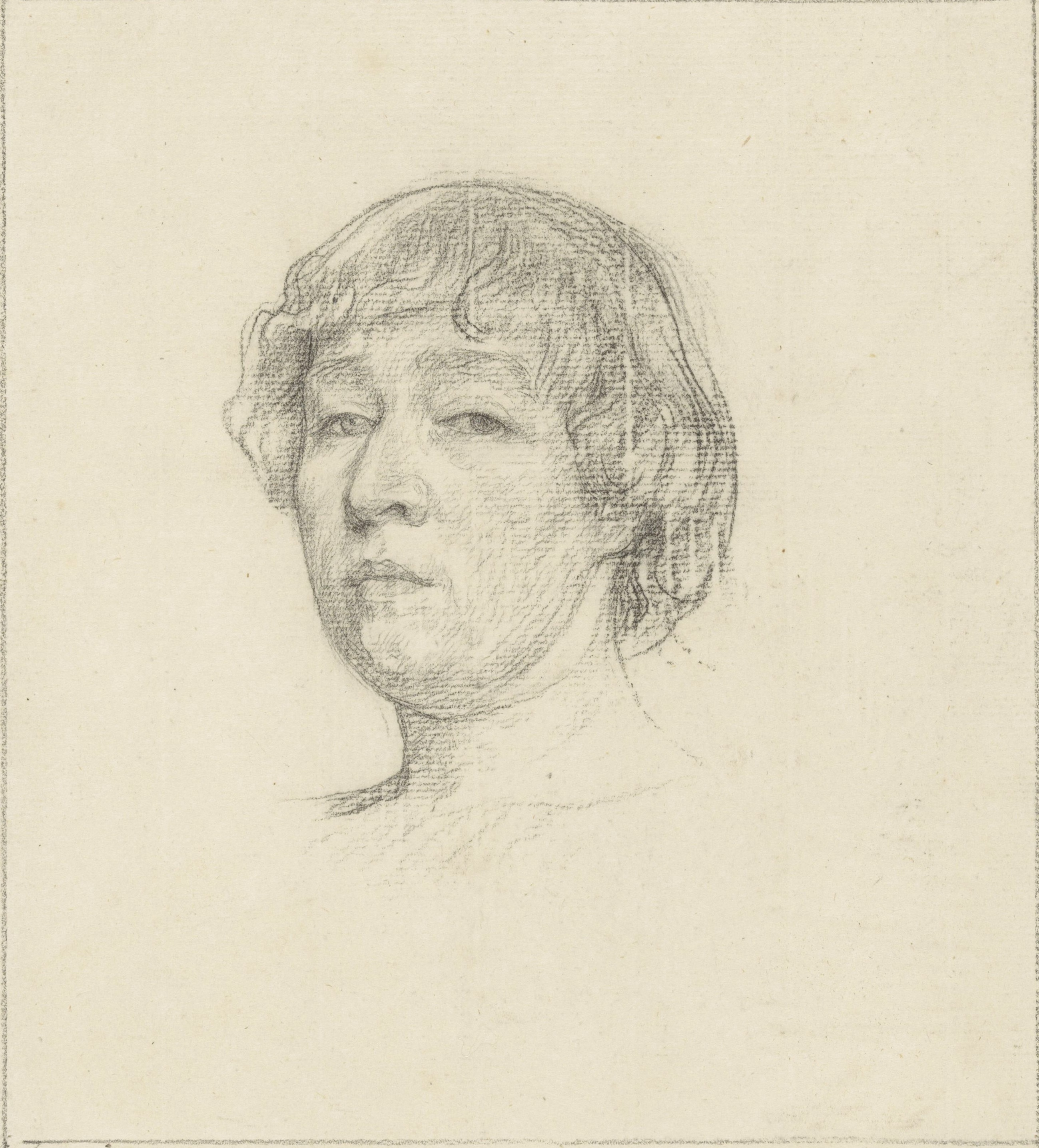 Portret van Etha Fles (Rijksmuseum)